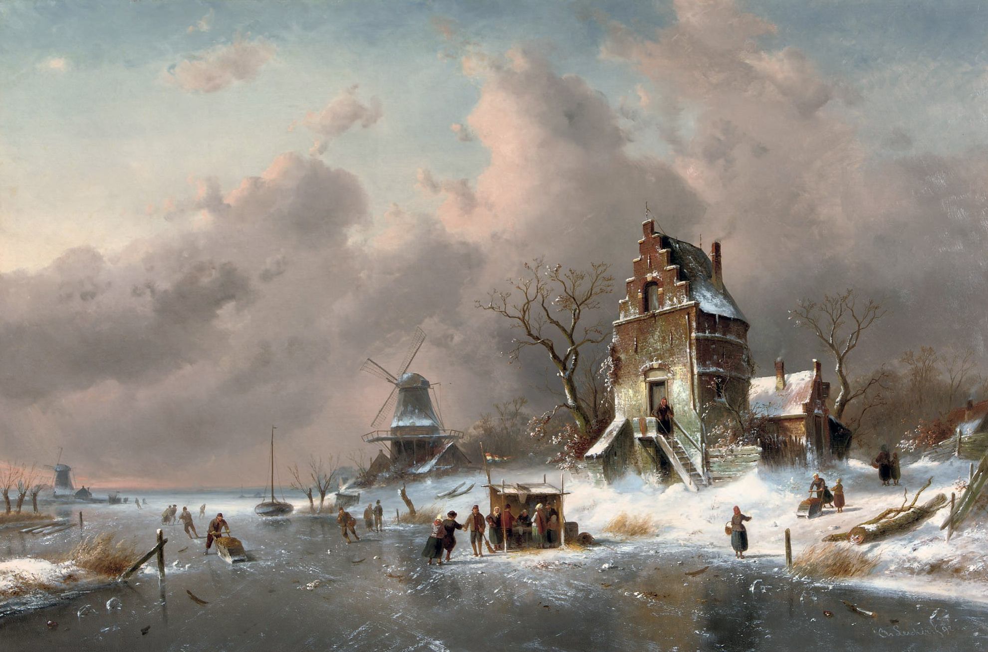 Numerous skaters near a koek-en-zopie on a frozen waterway by a mansion, signed and dated 'Ch Leickert:f 92' (lower right) oil on canvas 92 x 140 cm.